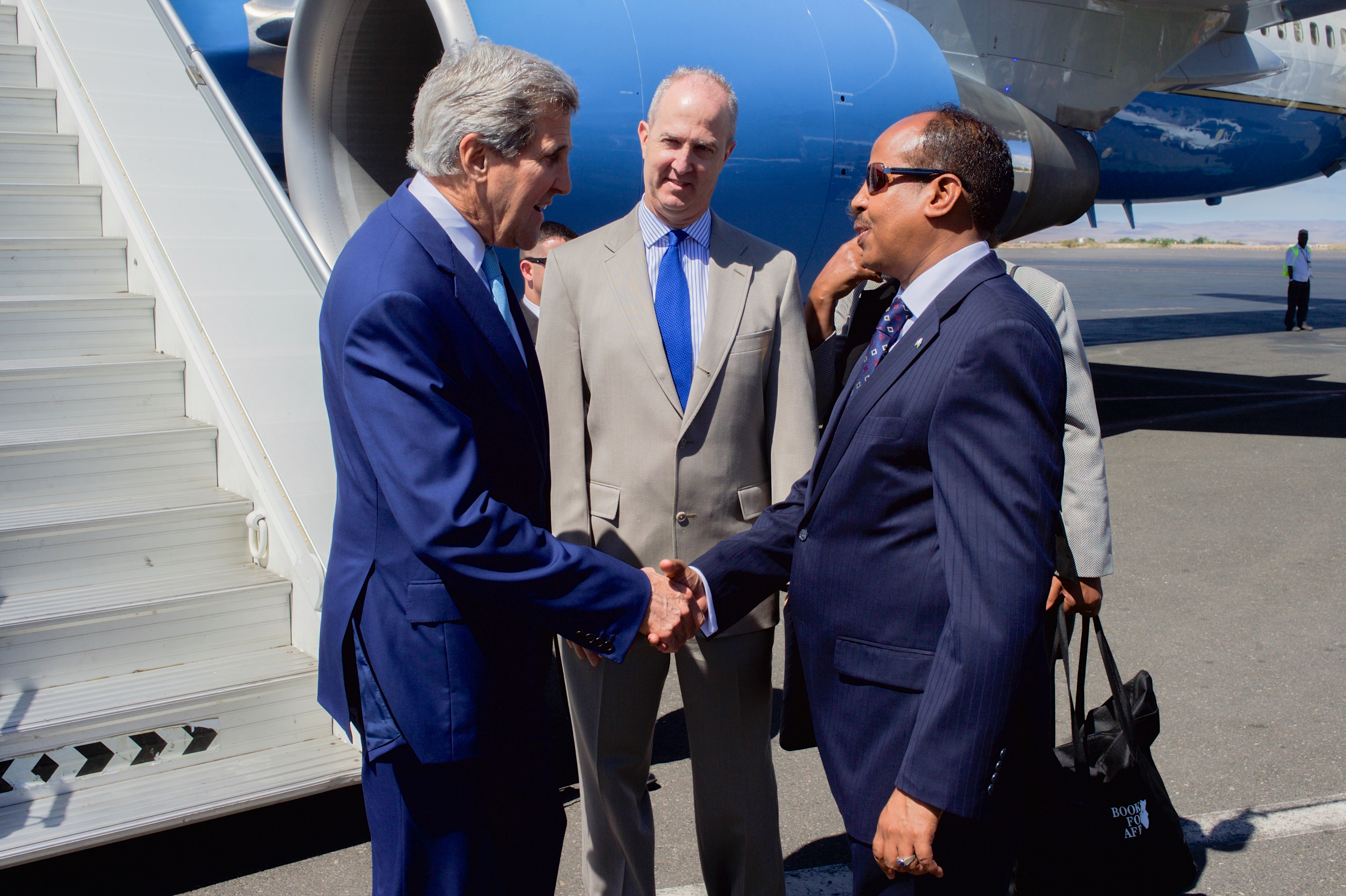 U.S. Secretary of State John Kerry shakes hands with Djiboutian Foreign Minister Mahamoud Ali Youssouf after deplaning at the Djibouti-Ambouli International Airport in Djibouti, Djibouti, on May 6, 2015, to visit a local mosque, meet with President Ismail Omar Guelleh and the Foreign Minister, pay a call on the U.S. Embassy and its staff, and to visit with U.S. forces at Camp Lemonnier. [State Department photo/ Public Domain]